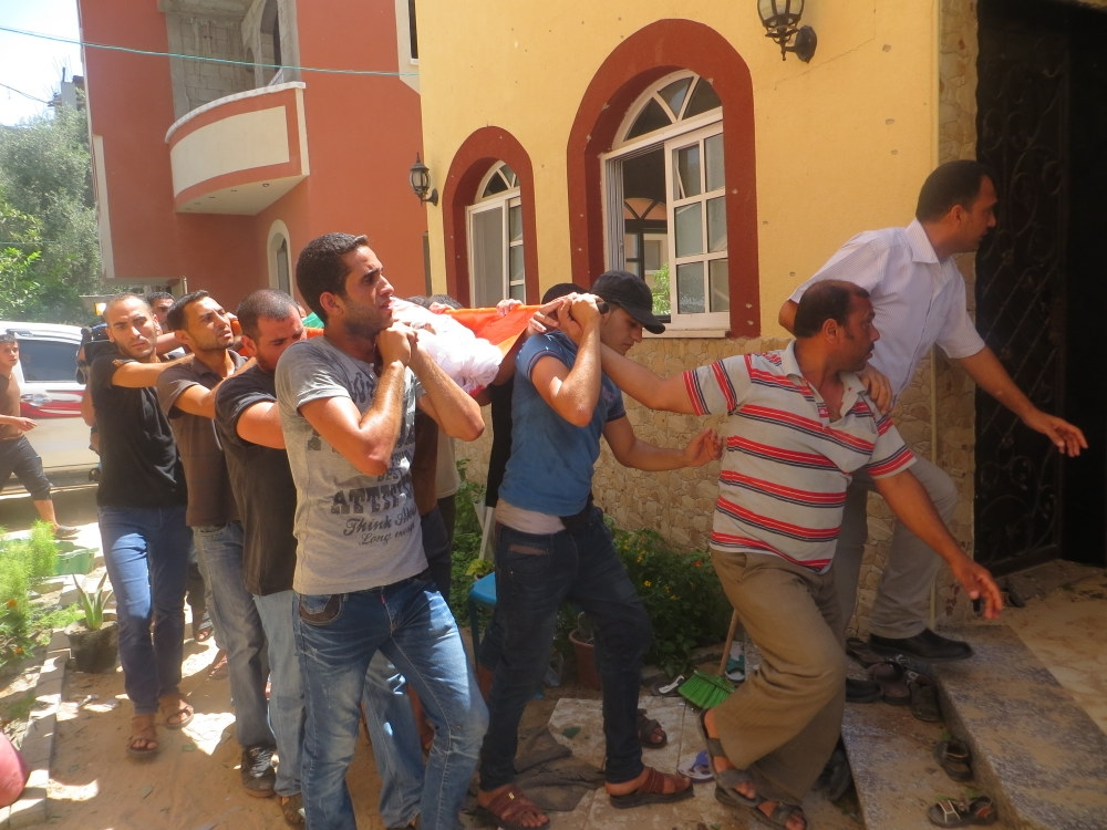 Description from B'Tselem source: "Gaza Strip, July 2014: A constant state of emergency According to B’Tselem’s initial inquiries, by yesterday evening (14 July 2014) at least 172 Palestinians had been killed in Israel’s airstrikes on the Gaza Strip. This number includes 34 minors (eight younger than 6 years old), 20 women (under 60) and 10 senior citizens. Our field researchers in Gaza have been working ceaselessly, night and day, to document events. Our field researchers in the West Bank have been lending a hand by collecting testimonies over the phone. Our office staff has been processing and verifying information, and trying to convey the incomprehensible scope of the infringement on human rights. The following seven photos were taken by our field workers in Gaza. They include images from the Kaware’ family home, where eight people, including six minors, were killed, and from the Hamad family home where six members of that family, including one girl – a minor – were killed." Photo caption from source: "The home of 'Abd al-Hafez Hamad. Six members of this family were killed when the house was bombed on the night of 8 July 2014. The IDF Spokesperson said the attack targeted Hafez Hamad, and made no reference to the other casualties. Pictured: the body of one of the people killed being brought into the house before the funeral."